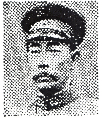 Cheng Zhiyuan (Ch'eng Chih-yüan) (1878 - ?)